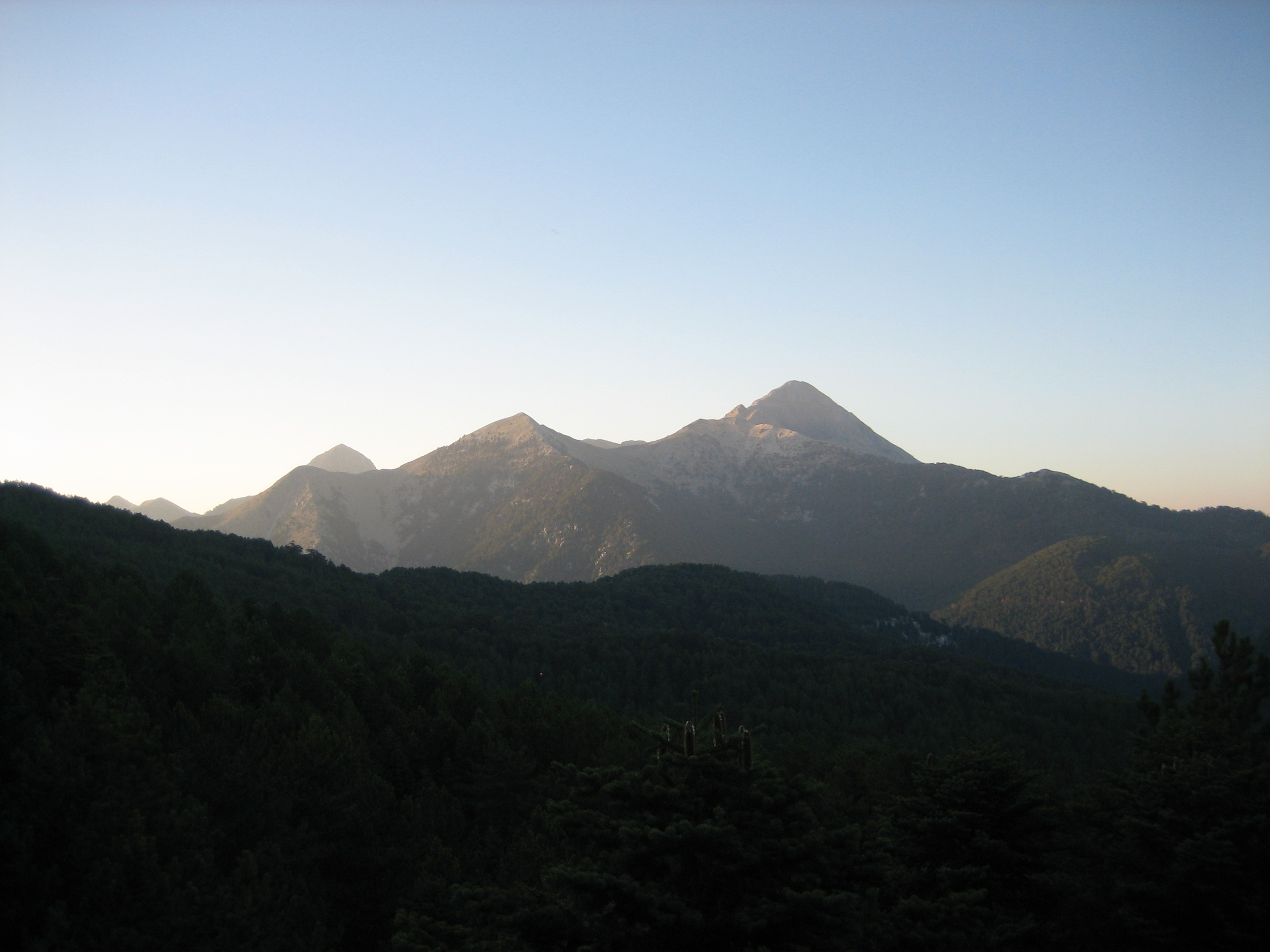 Mount Taygetus seen from Vassiliki Forest.